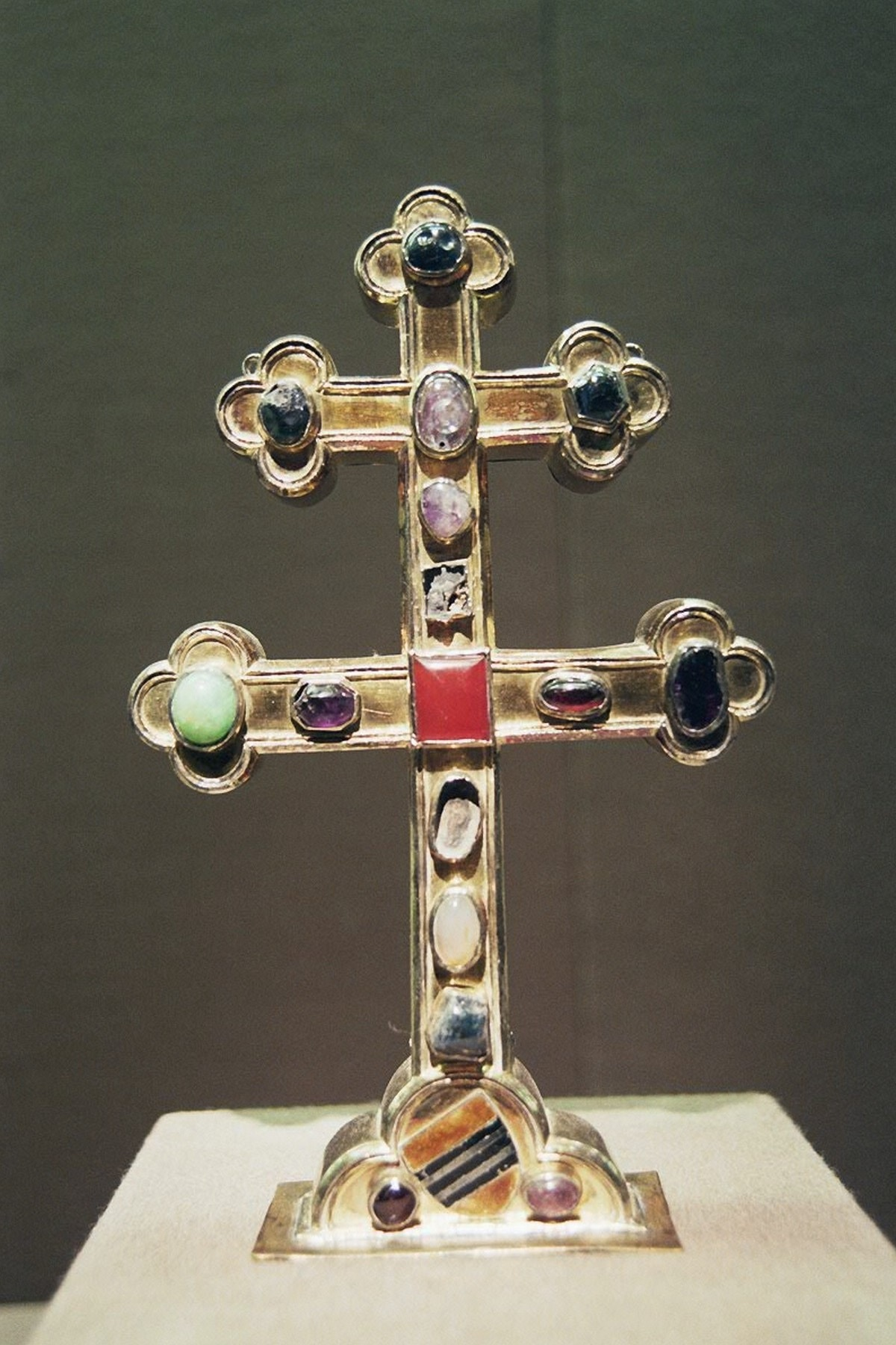 Part of the Guelph Treasure, Art Institute of Chicago, formerly located in the Cathedral of Saint Blaise, Brunswick, Germany